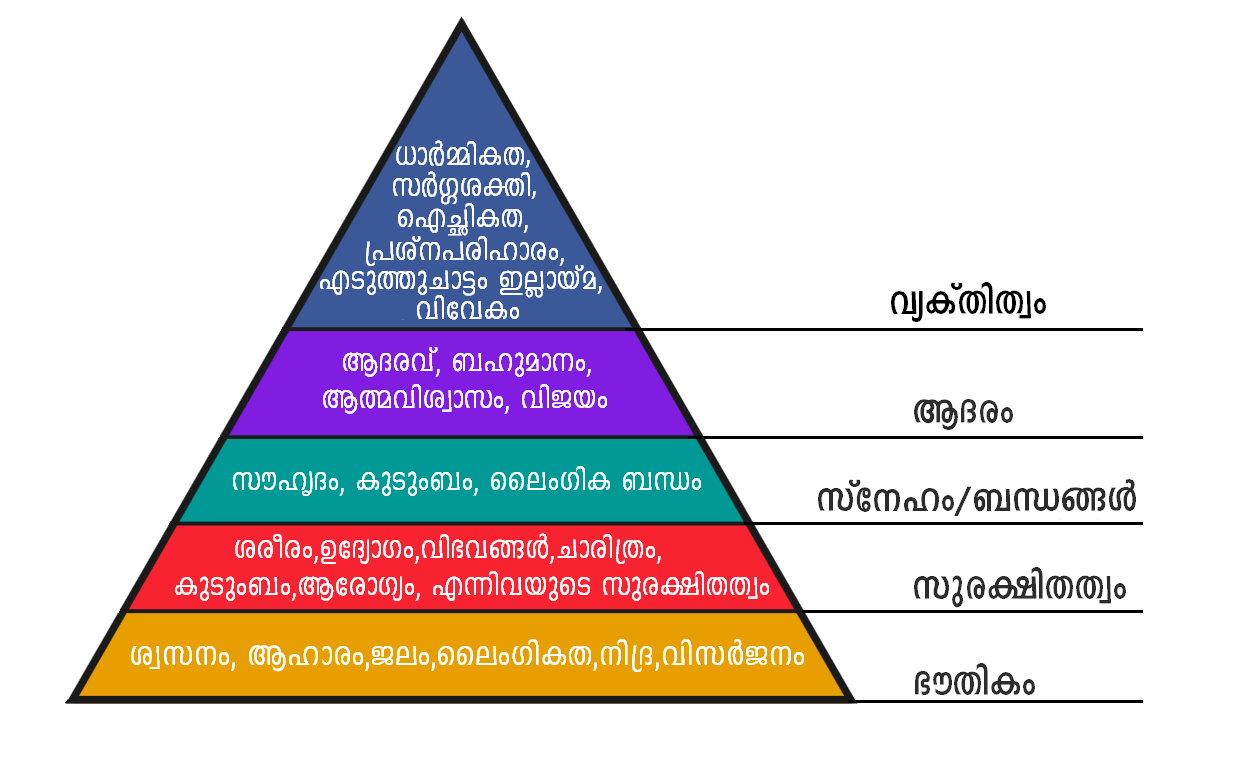 Maslow's hierarchy of needs in Malayalam